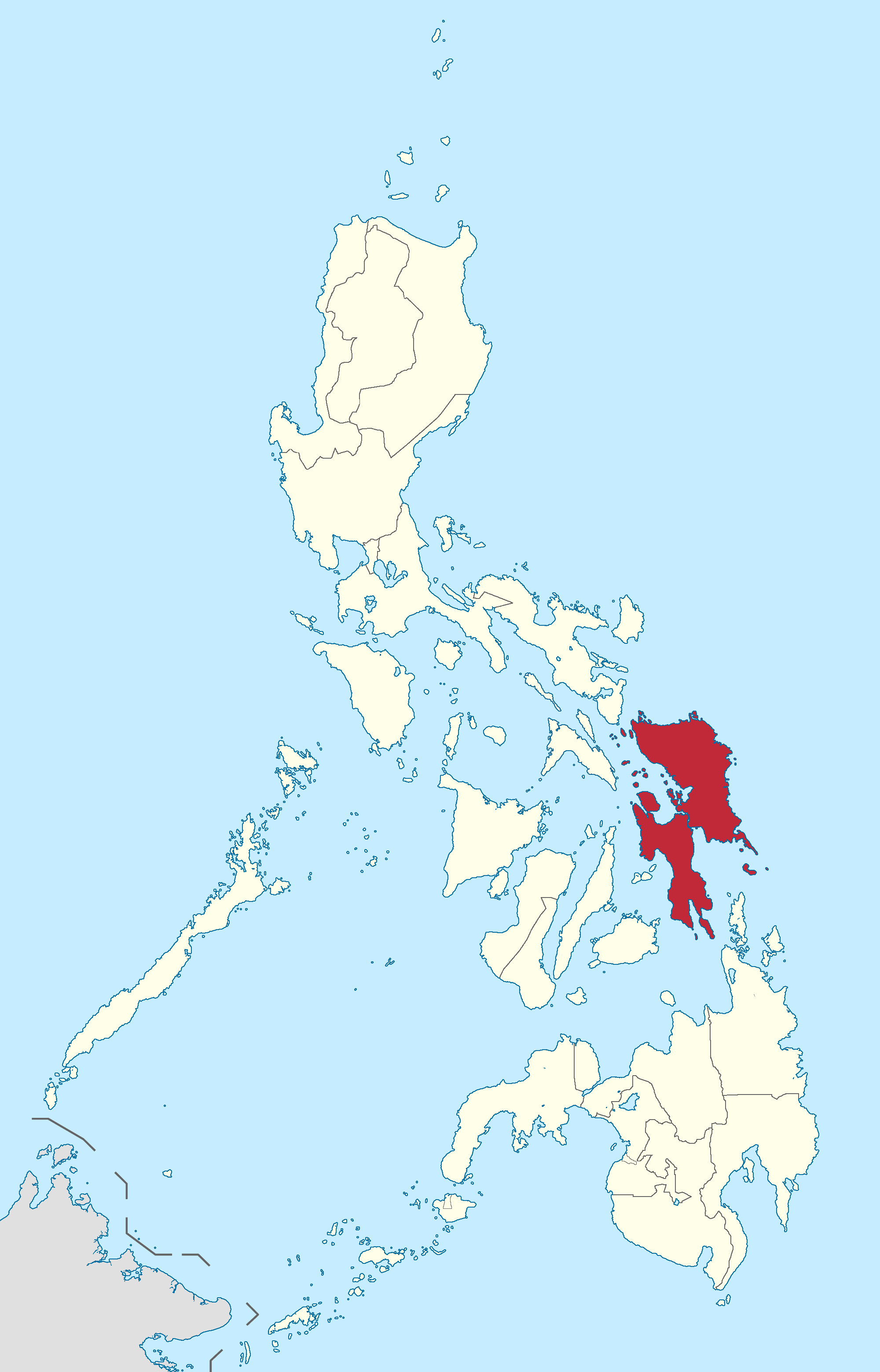 Location of Eastern Visayas region in the Philippines. Filipino: Kinaroroonan ng rehiyon ng Silangang Visayas sa Pilipinas.